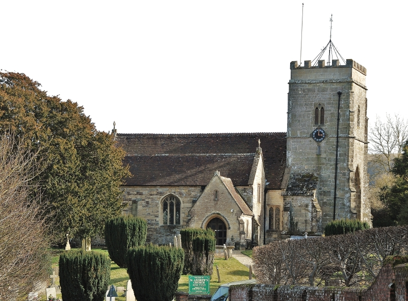 Okeford Fitzpaine: St Andrew's Church